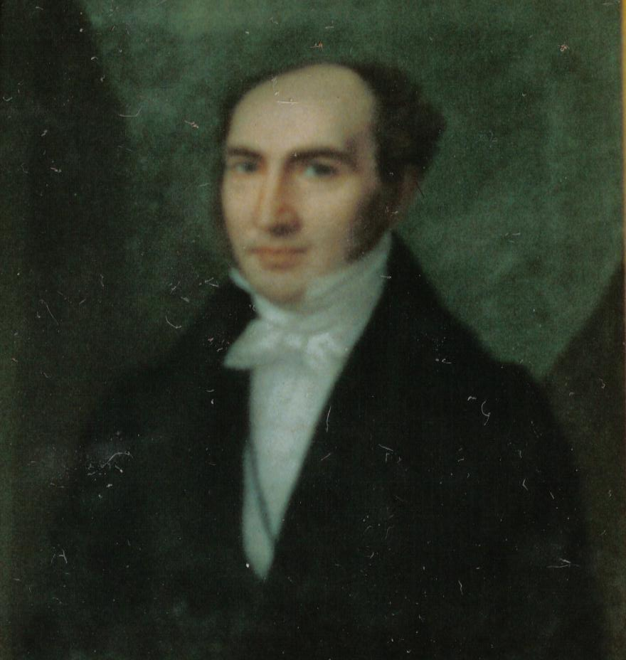 John Campbell Jamieson 1796 - 1844. Private Secretary to Archibald, 13th Earl of Eglinton & Winton.